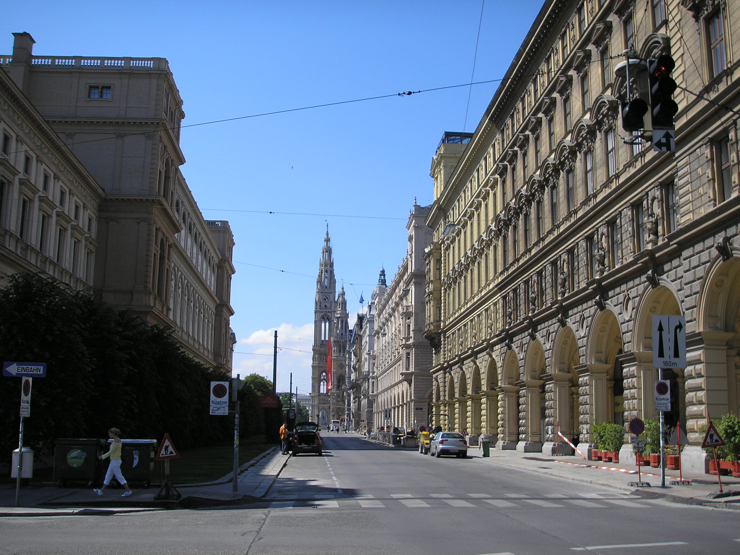 View from the Reichsratsstraße onto the Rathaus building in Vienna.